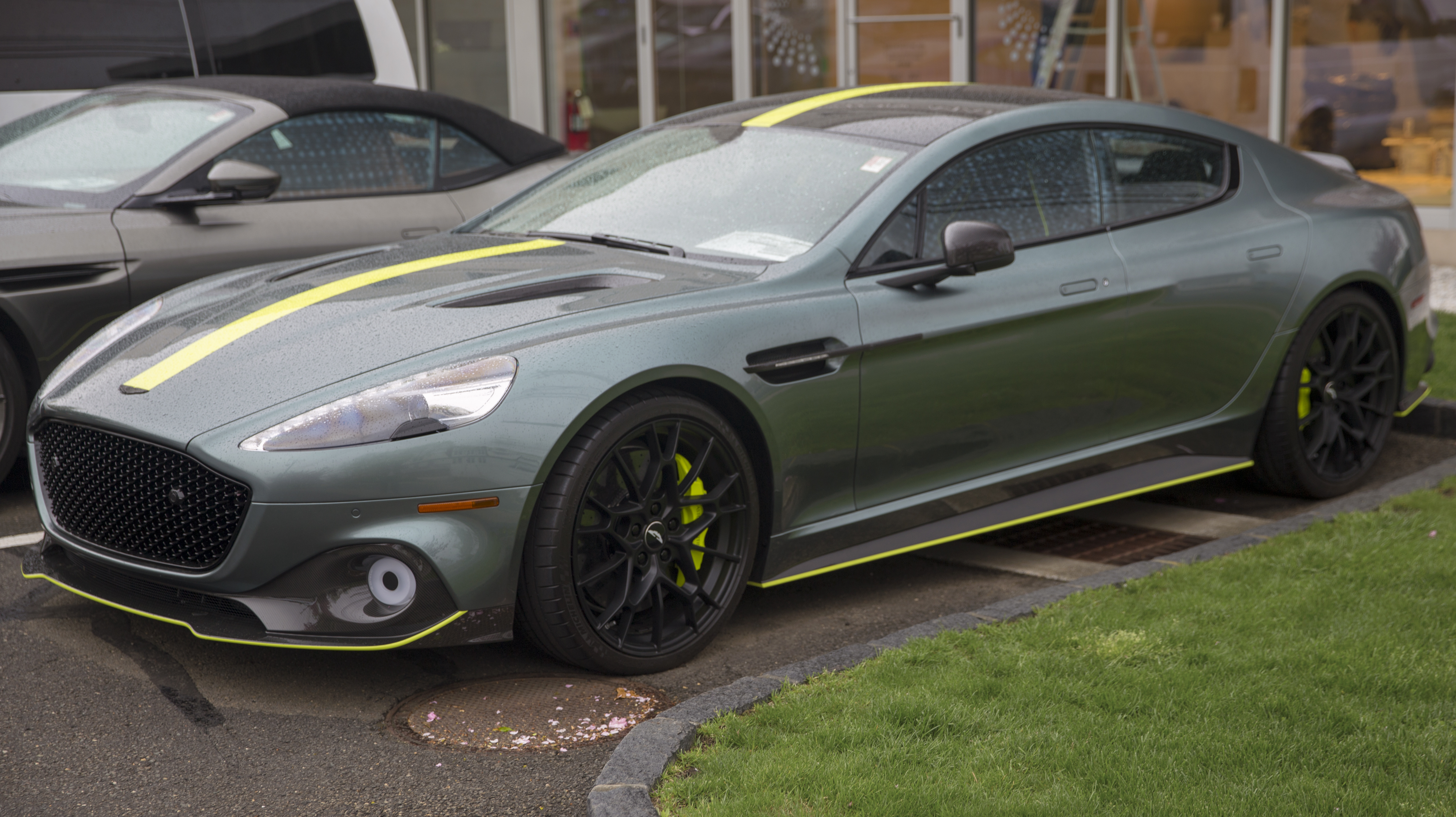 A 2019 Aston Martin Rapide AMR in Stirling Green with a Dark Knight (really) interior. Engine no AM27/51840. According to the window sticker, it has 24% UK parts content and 35% German (including the engine). Strange and alluring vehicle. Can someone lend me $282,980?